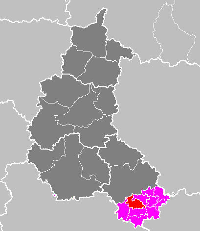 Maps of arrondissements and cantons of France: Arrondissement de Langres - Canton de Langres.PNG